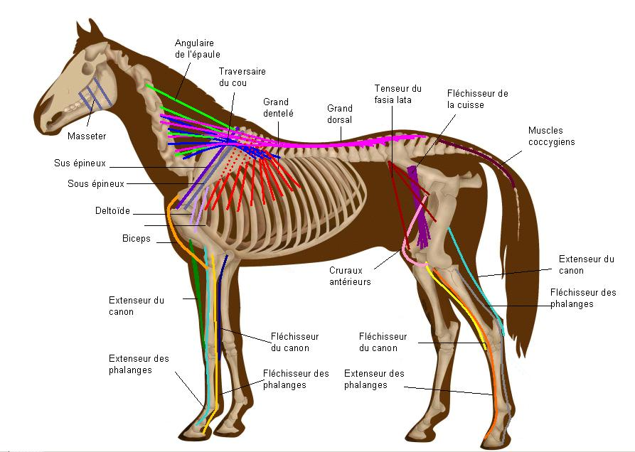 Muscles (part 2) of Equus Callibus (a common horse).